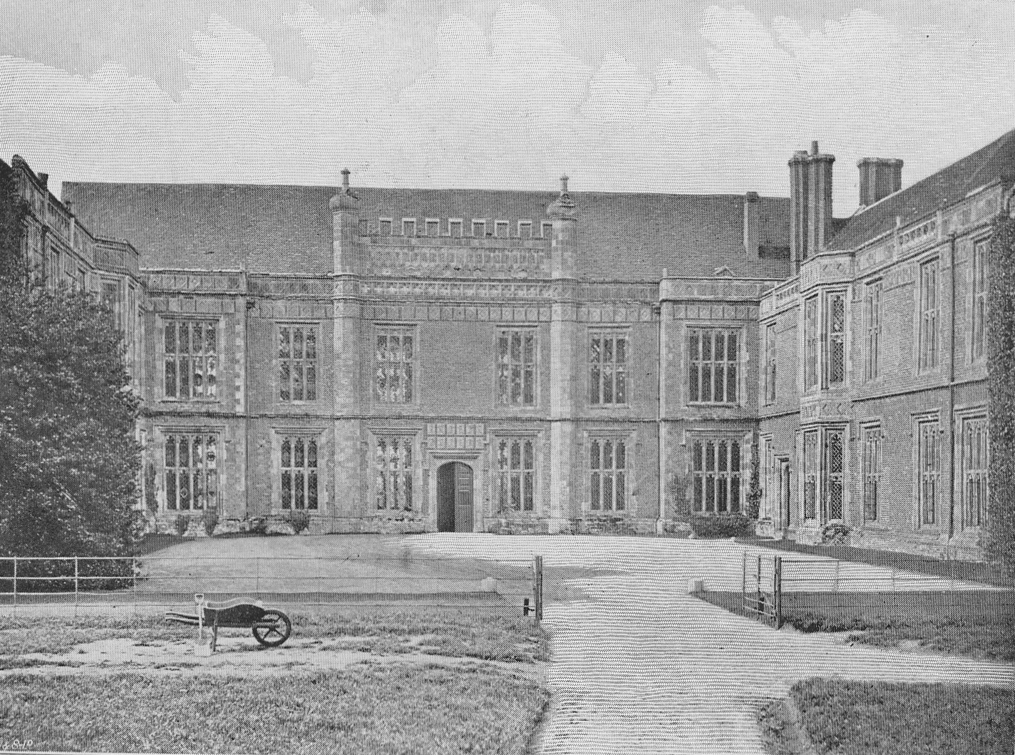 Sutton Place, Guildford. The lease of the manor had been held from 1874 to the book's publication date and beyond by the author's father then by his brother Sidney Harrison.